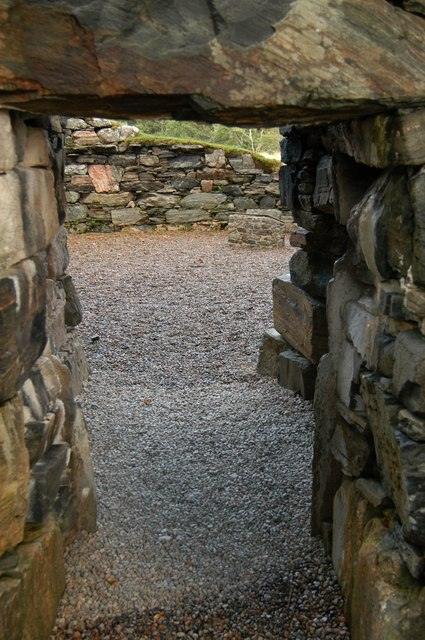 The Perfect Defensive Structure This is the single doorway to Dun Telve.